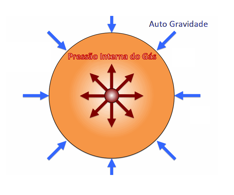 Picture of the balance between the internal pressure of the gas and the self-gravity of a star. This aplies to our own Sun, which neither expands nor contracts, because it is in equilibrium.